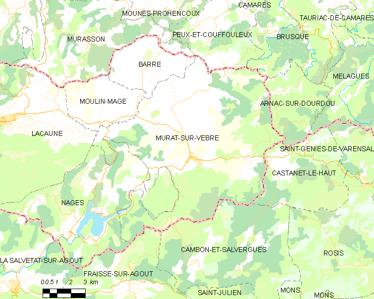 Map commune FR insee code 81192.png - Murat-sur-Vèbre